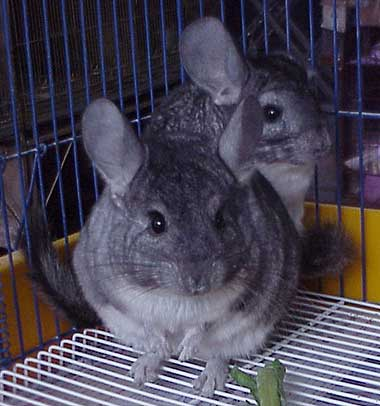 Domestic chinchillas.